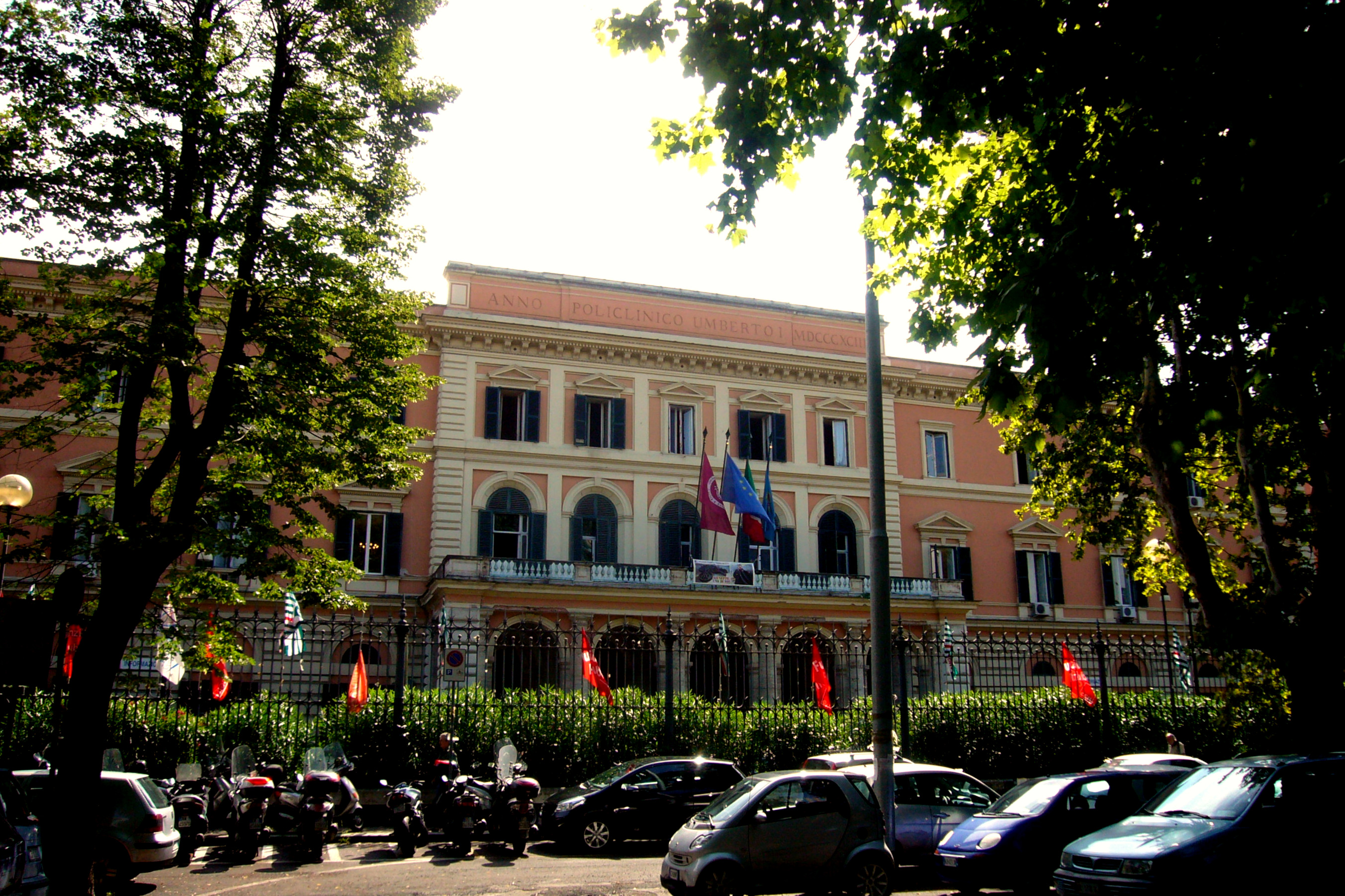 Main entrance of Policlinico Umberto I, a major university hospital in Rome, Italy